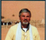 Viaggio nel Sahara